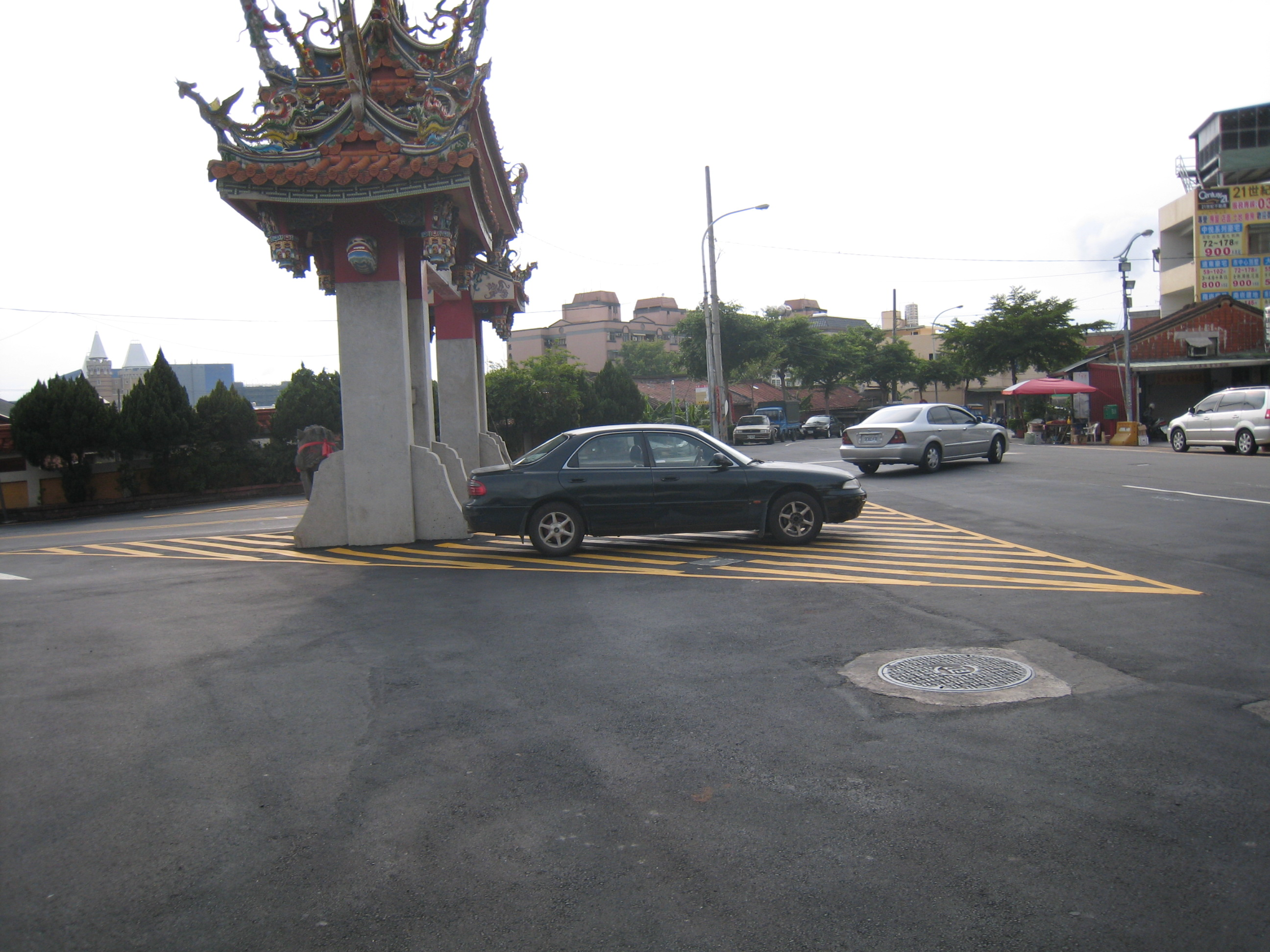 The paifang of Wufu Temple.Showing the side of the paifang.